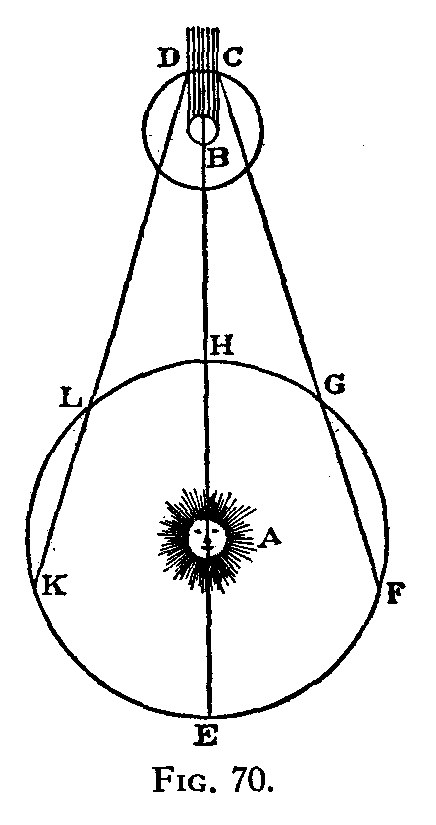 A diagram of Jupiter (B) eclipsing its moon Io (DC) as viewed from different points in earth's orbit around the sun.